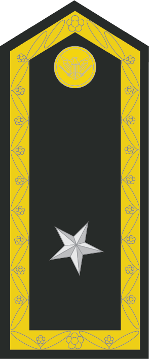 The Army of the Republic of Vietnam's rank of Brigadier General (Chuẩn Tướng), 1967-1975